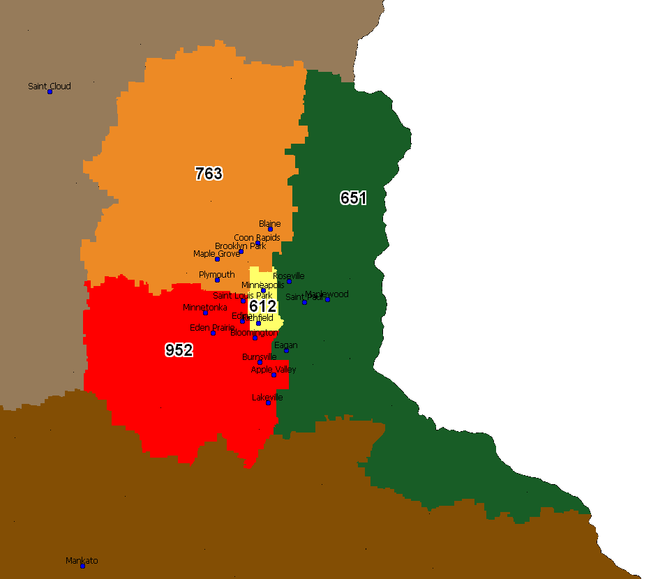 Area codes within the Minneapolis-St. Paul area of Minnesota.